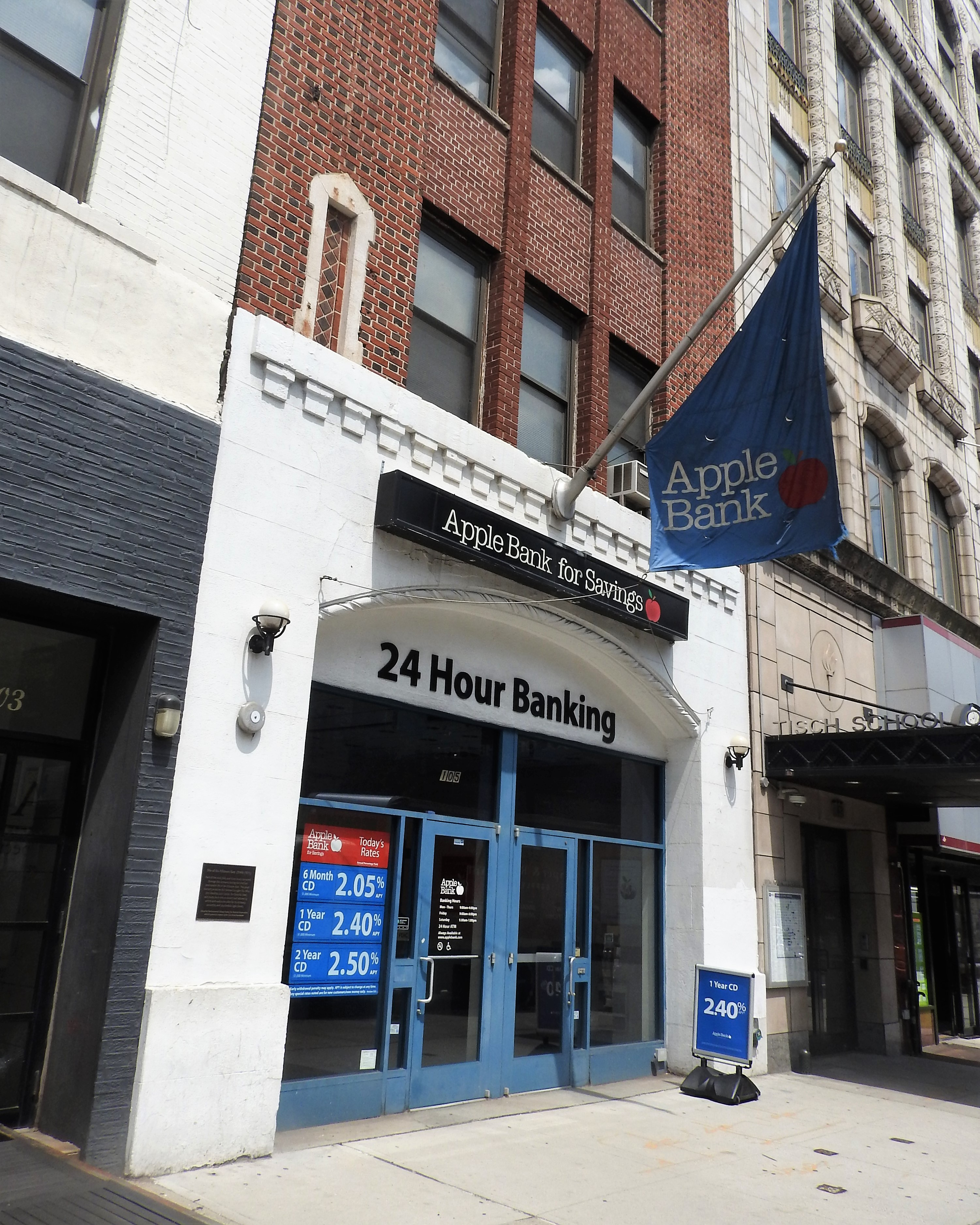 Looking north at former nightclub, now a bank branch